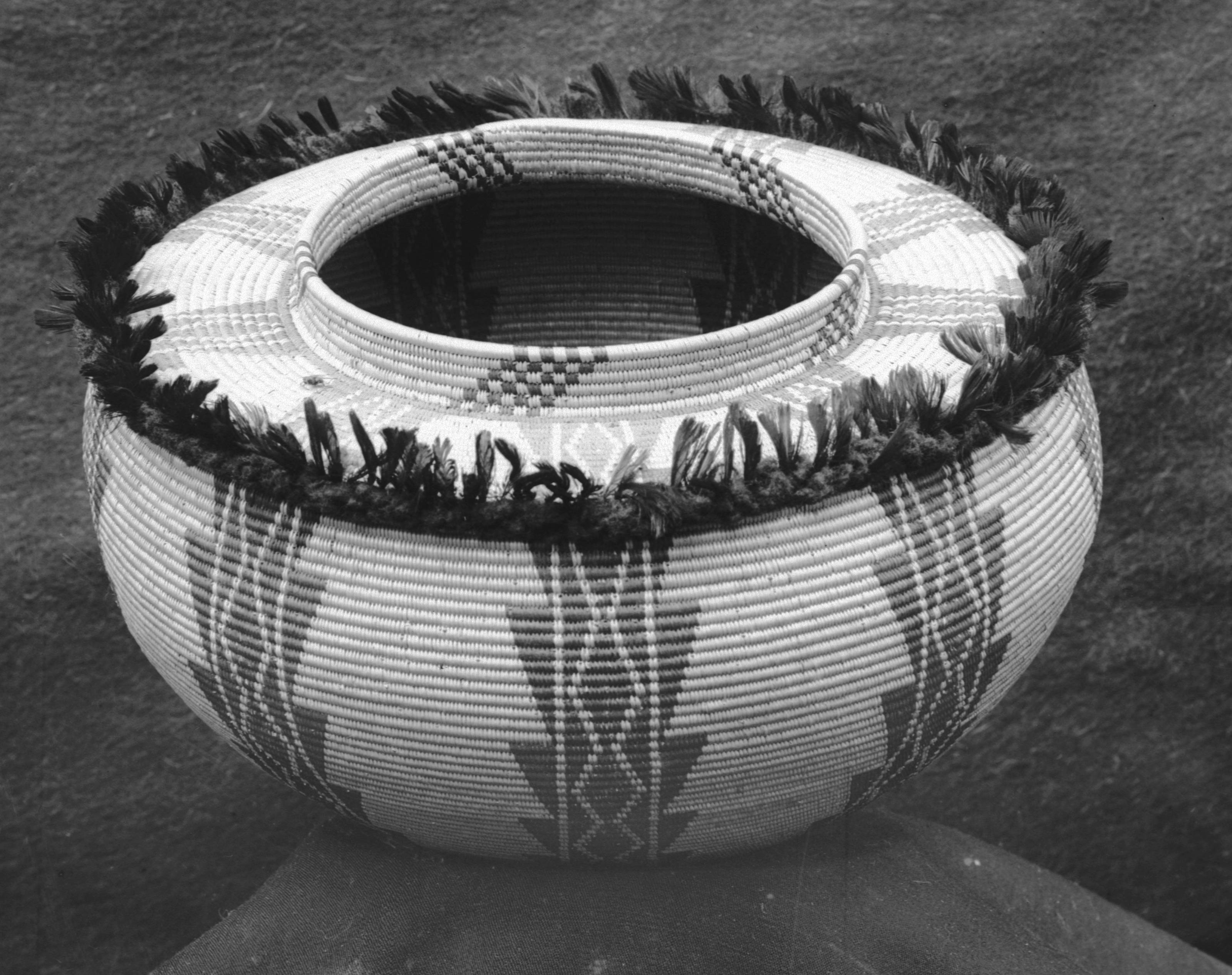 Indian basket on display, ca.1900 Photograph of an unidentified Indian basket on display, photographed ca.1900. It is shaped like a squat round bowl with a short neck and small mouth. It has vertical stripes consisting of diamonds and triangles. There is a fringe around the circumference of the basket where the side connects with the top. It sits on a dark cloth in front of a dark cloth background. Image 22. Call number: CHS-3298 Photographer: Pierce, C.C. (Charles C.), 1861-1946 Filename: CHS-3298 Coverage date: circa 1900 Part of collection: California Historical Society Collection, 1860-1960 Type: images; physical objects Part of subcollection: Title Insurance and Trust, and C.C. Pierce Photography Collection, 1860-1960 Repository name: USC Libraries Special Collections Format: glass plate negatives Microfiche number: 1-162- Archival file: chs_Volume93/CHS-3298.tiff Repository address: Doheny Memorial Library, Los Angeles, CA 90089-0189 Subject (adlf): tribal areas Geographic subject (country): USA Format (aacr2): 2 photographs : glass photonegative, photoprint, b&w ; 22 x 17 cm. Rights: Digitally reproduced by the USC Digital Library; From the California Historical Society Collection at the University of Southern California Project: USC Accession number: 3298 Repository Contributing entity: California Historical Society Date created: circa 1900 Publisher (of the digital version): University of Southern California. Libraries Format (aat): photographic prints; photographs Legacy record ID: chs-m15949; USC-1-1-1-14023 Access conditions: Send requests to address or e-mail given. Phone (213) 821-2366; fax (213) 740-2343. Subject (file heading): Indians -- Arts and crafts -- Basketry Subject (lcsh): Indians of North America; Indians of North America -- Industries; Baskets; Indians of North America -- Basket making